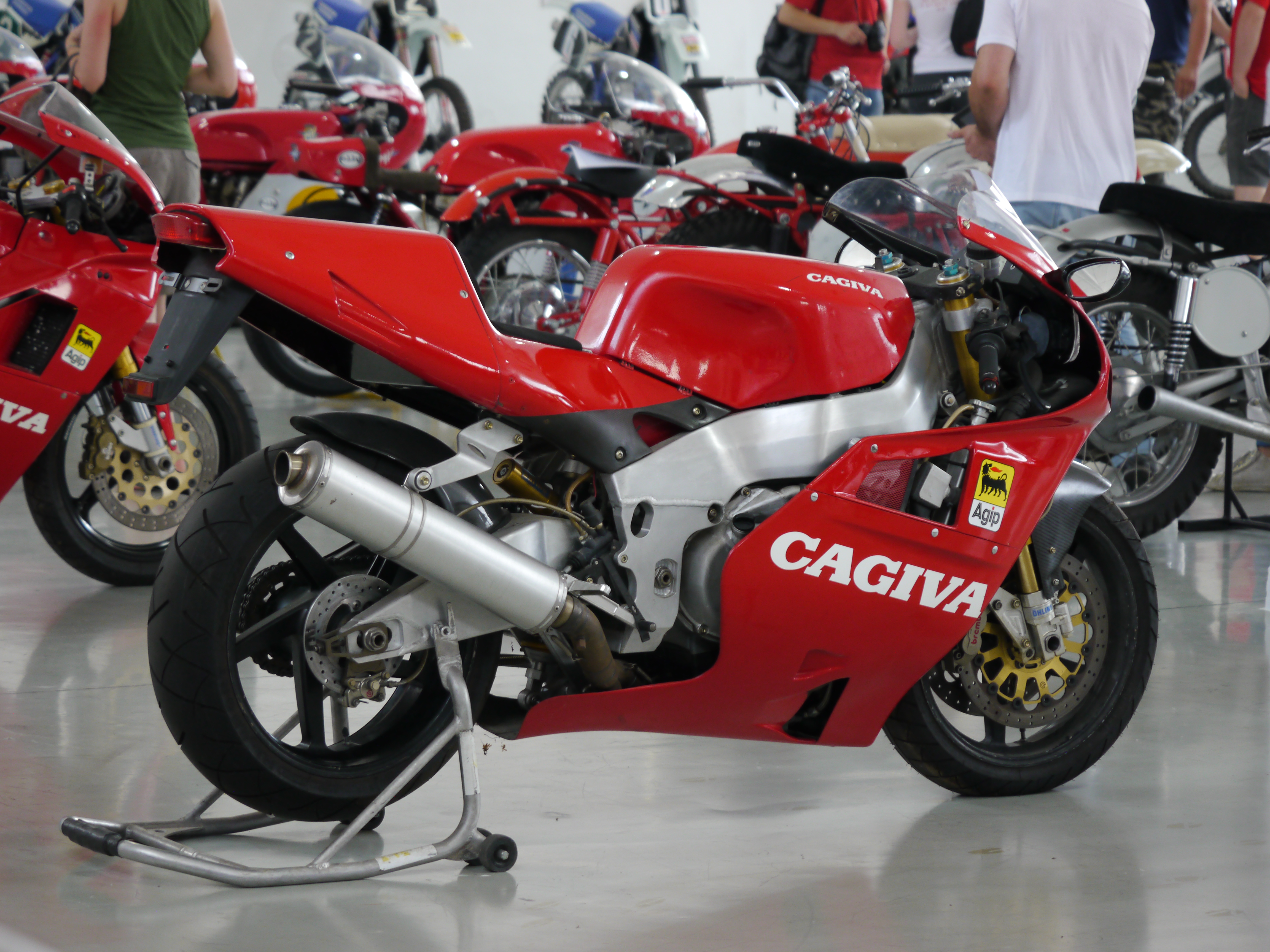 1995 Cagiva F4, a prototype that prefigured the future 1998 MV Agusta F4, exhibited at "Gli Amici di Claudio 2015" event in Schiranna, Varese (Italy), Summer 2015.